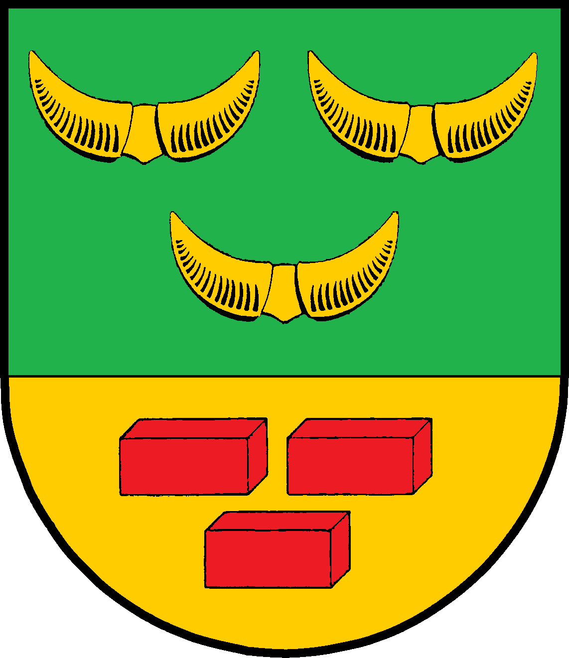 Coat of arms of the municipality Wiemersdorf in Schleswig-Holstein, Germany.